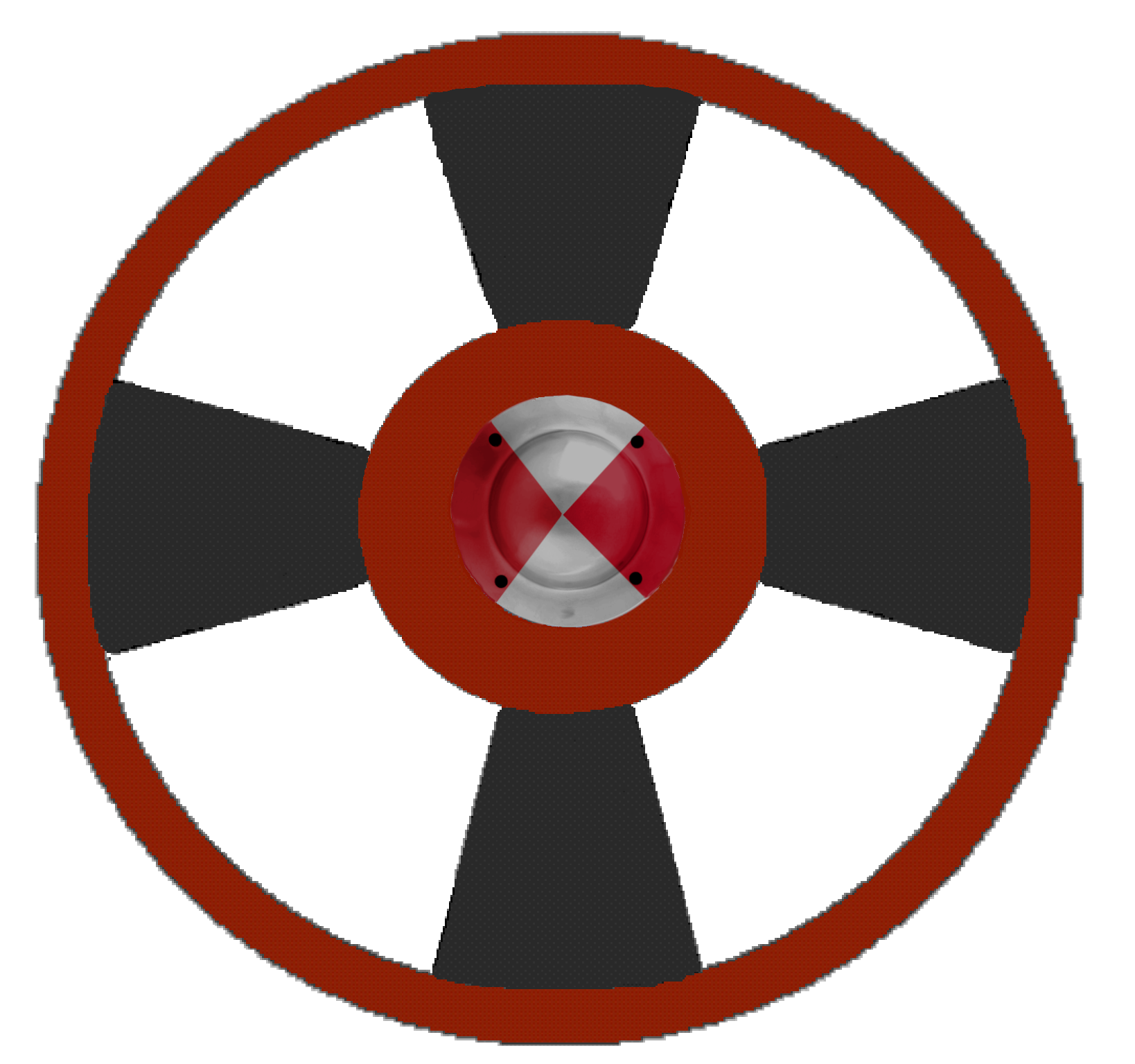 Shield pattern o.t. Regii (Western Empire), sixth of the 32 units of legiones comitatenses, listed in the Magister Peditum's infantry roster and his Italian command.